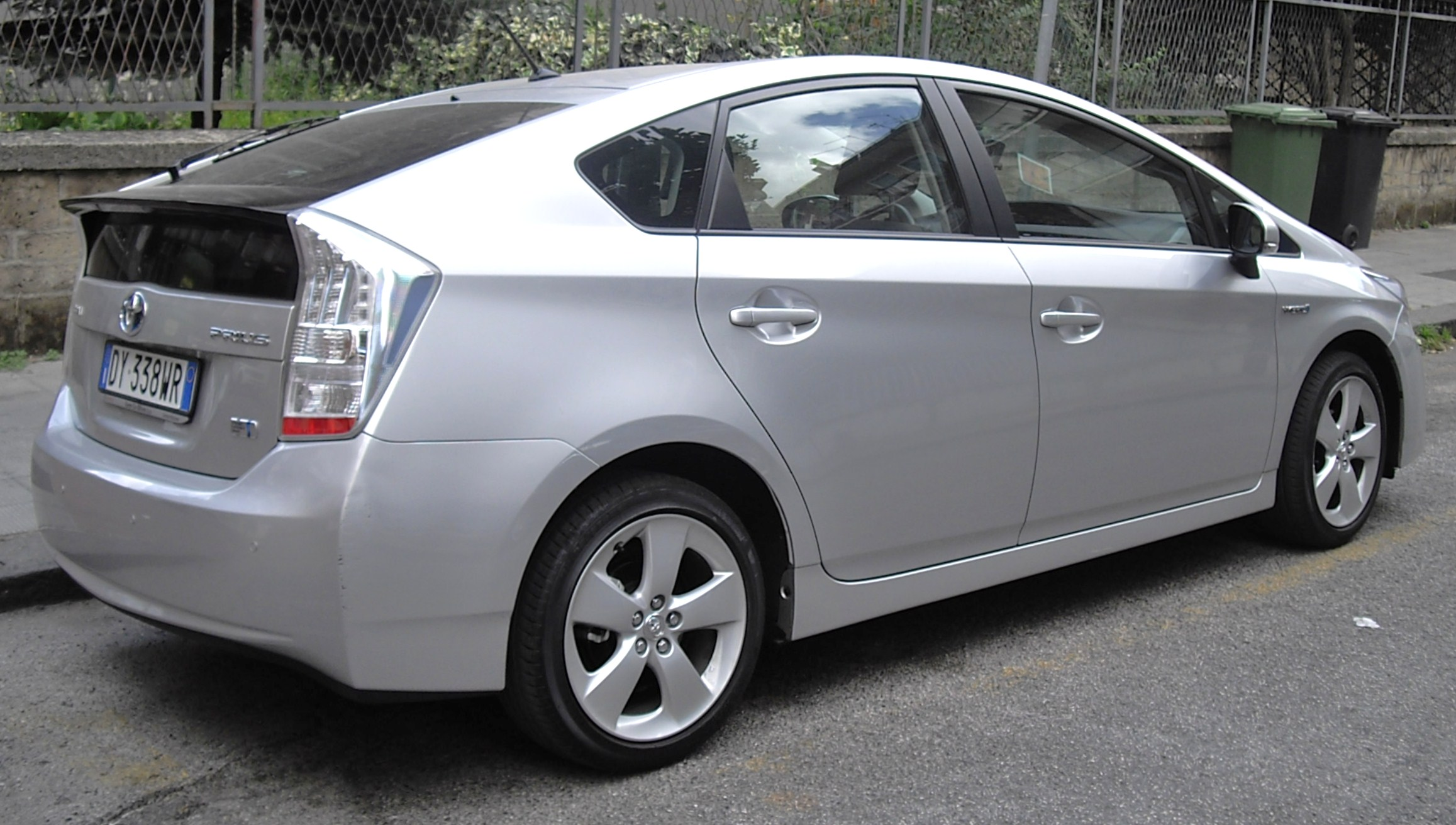 2010 Toyota Prius rear